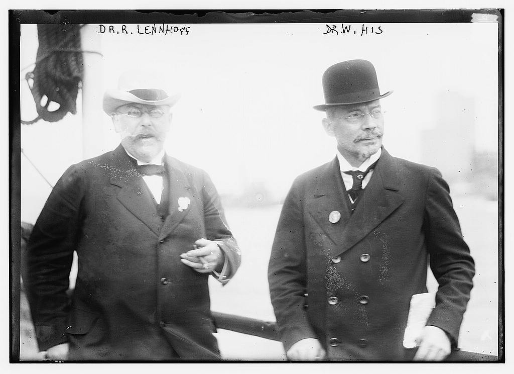 Bain News Service,, publisher. Dr. Rudolph Lennhoff and Dr. W. His [between 1910 and 1915] 1 negative : glass ; 5 x 7 in. or smaller. Notes: Title from unverified data provided by the Bain News Service on the negatives or caption cards. Forms part of: George Grantham Bain Collection (Library of Congress). Format: Glass negatives. Repository: Library of Congress, Prints and Photographs Division, Washington, D.C. 20540 USA, General information about the Bain Collection is available at Persistent URL: Call Number: LC-B2- 2493-5